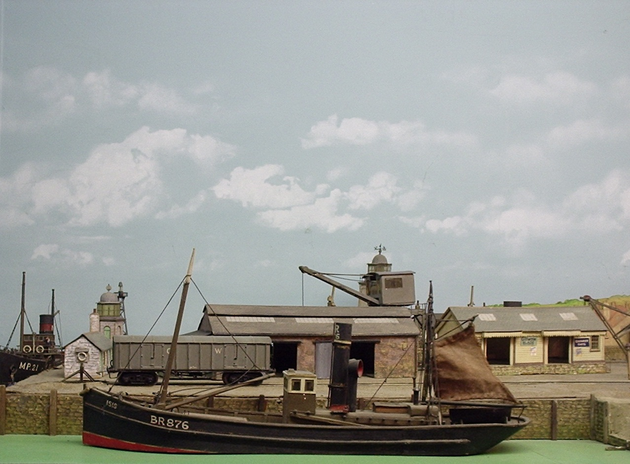 Photo by William J. Grimes